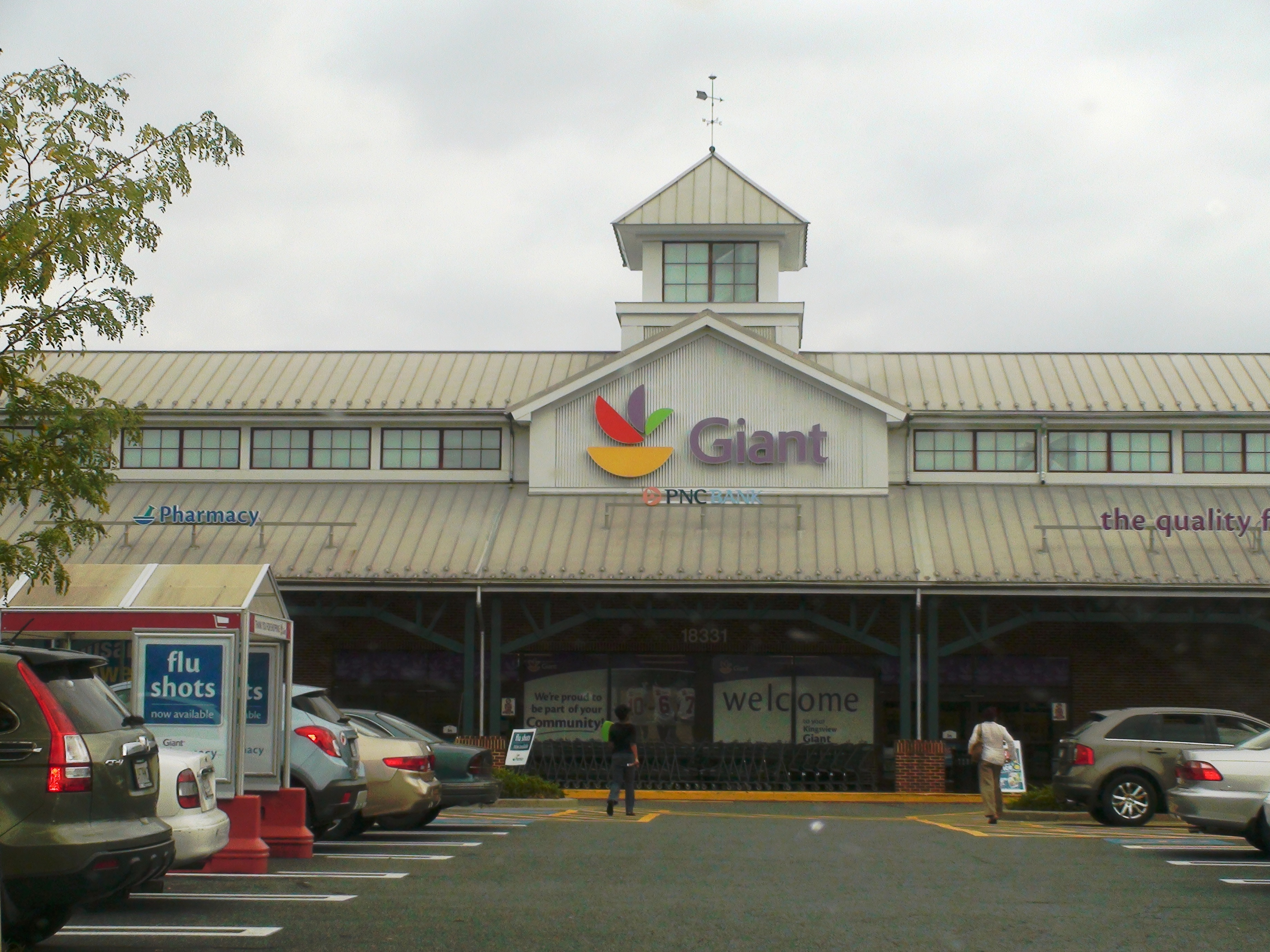 A Giant Food store in Germantown, Montgomery County, Maryland, at 10:32 p.m. (EDT) on September 9, 2013. Photograph taken on September 9, 2013, in Germantown, Montgomery County, Maryland, with a Sony HDR-SR11 camcorder, by Illegitimate Barrister.